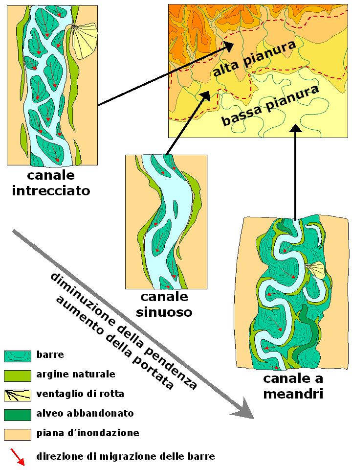 Generalized sketch map of an alluvial plain. Text in Italian.